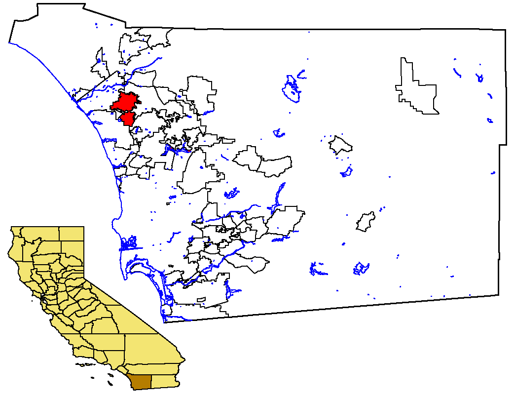 A map of Vista's location in San Diego County. Based on Image:SD in SD County map.png, based on information from [1].